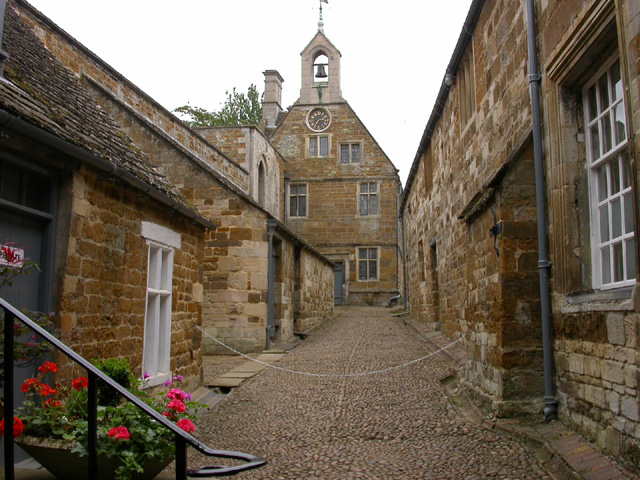 A lane inside Rockingham Castle, Northamptonshire. The castle wall is to the left.